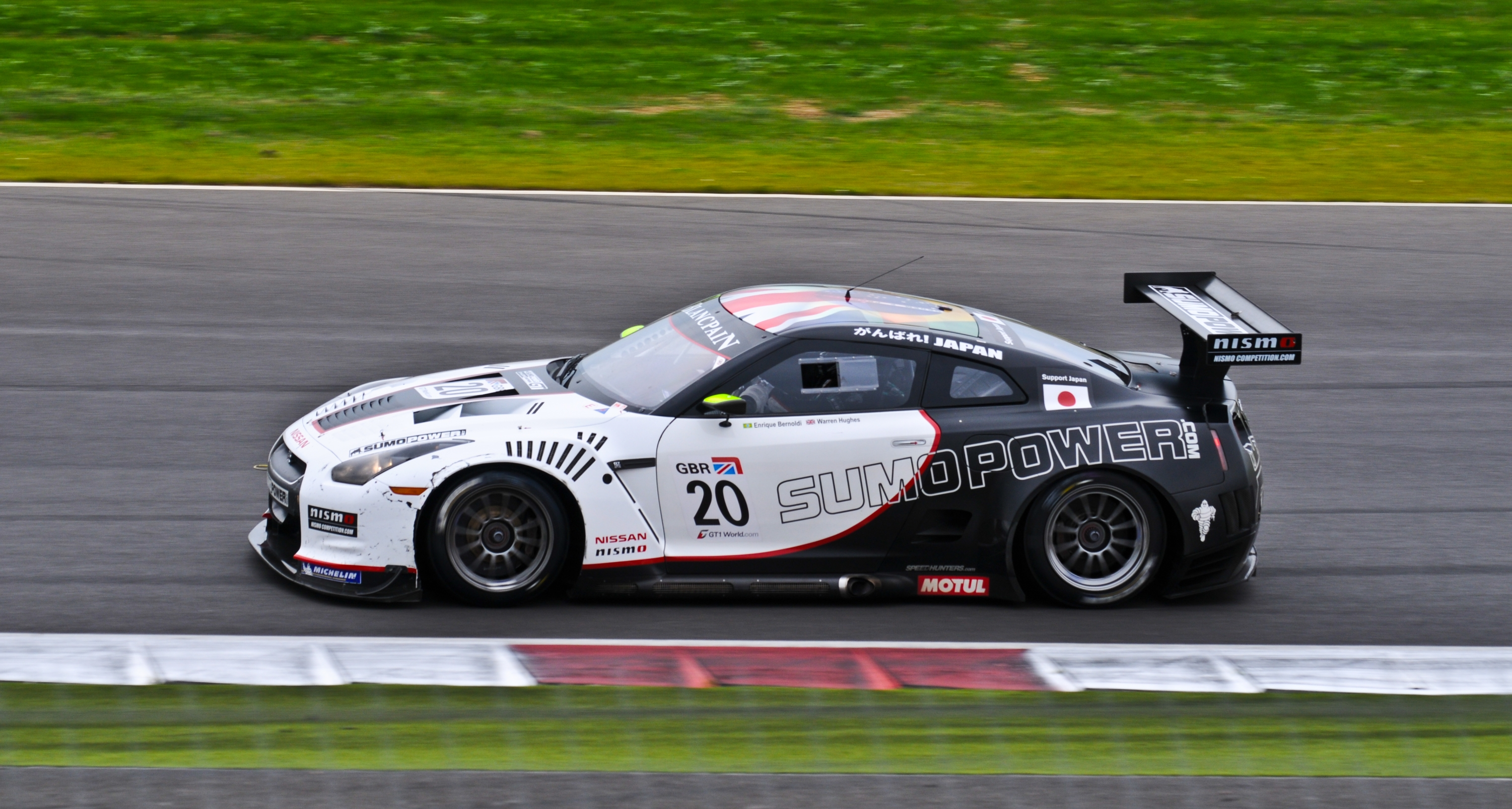 2011 FIA GT1 Silverstone round